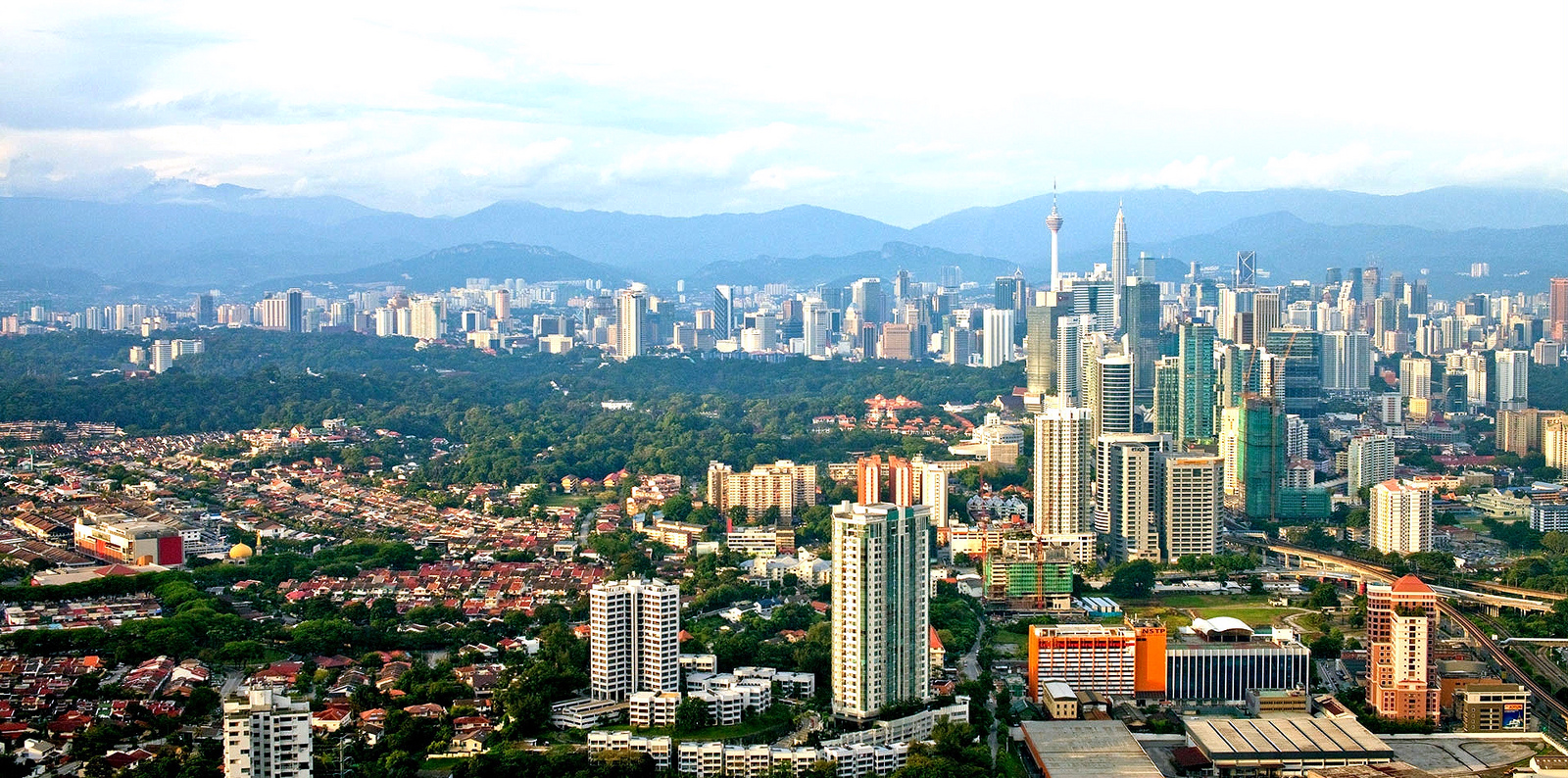 This photo is the view of Kuala Lumpur city center taken from Bangsar.